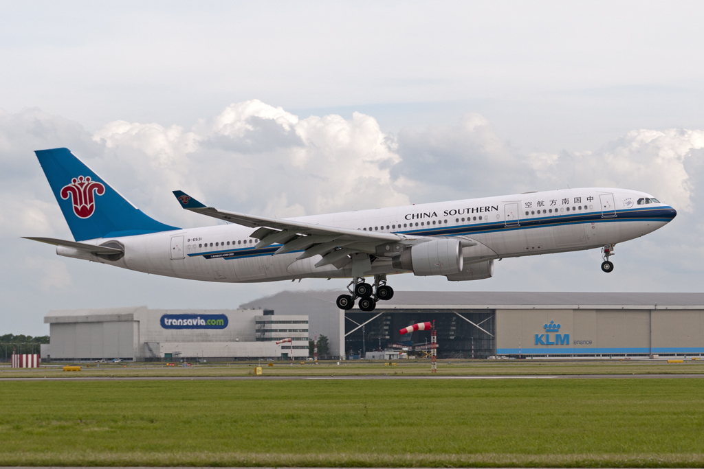 Landing at runway 27. Airbus A330-223 Amsterdam schiphol [AMS / EHAM] 23-06-2012